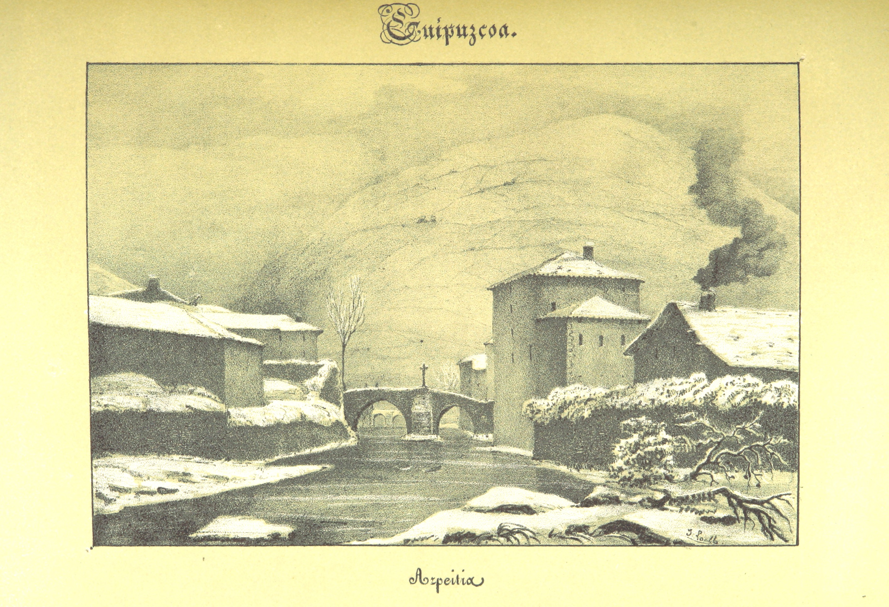 Image taken from: Title: "Revista pintoresca de las provincias Bascongadas. Edicion de lujo. Adornada con vistas ... por S. Lambla. Escrita por L. M. de E. y A. A. y H. Entrega 1-45" Author: E., L. M. de - and A. y H. (A.) Contributor: A. y H., A. Contributor: LAMBLA, Julio. Shelfmark: "British Library HMNTS 10161.f.16." Page: 439 Place of Publishing: Bilbao Date of Publishing: 1844 Issuance: monographic Identifier: 001024664 Explore: Find this item in the British Library catalogue, 'Explore'. Download the PDF for this book (volume: 0) Image found on book scan 439 (NB not necessarily a page number) Download the OCR-derived text for this volume: (plain text) or (json) Click here to see all the illustrations in this book and click here to browse other illustrations published in books in the same year. Order a higher quality version from here.